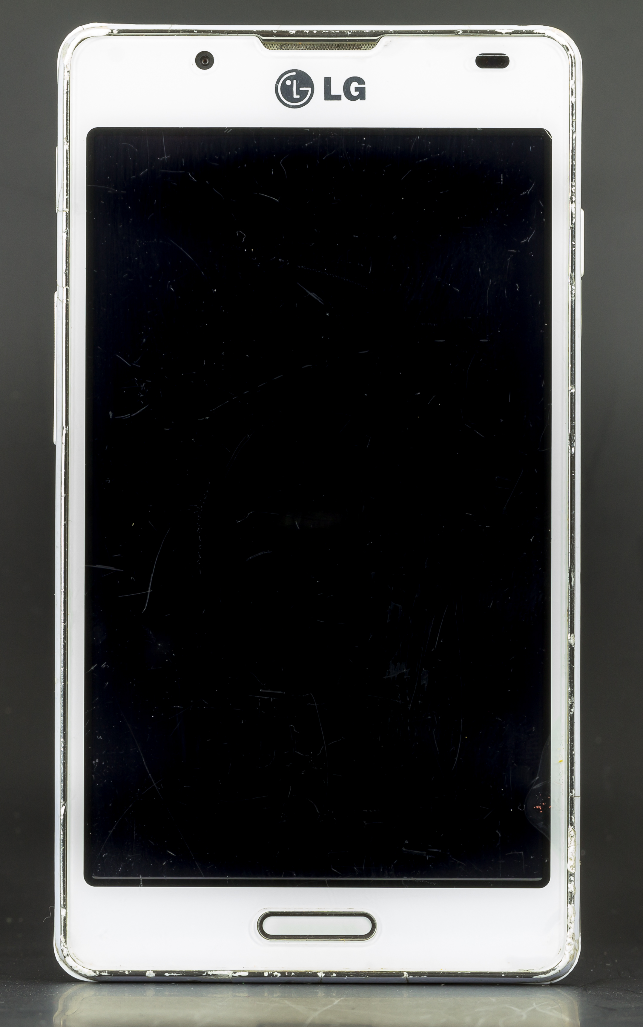 LG P710 Optimus L7 II